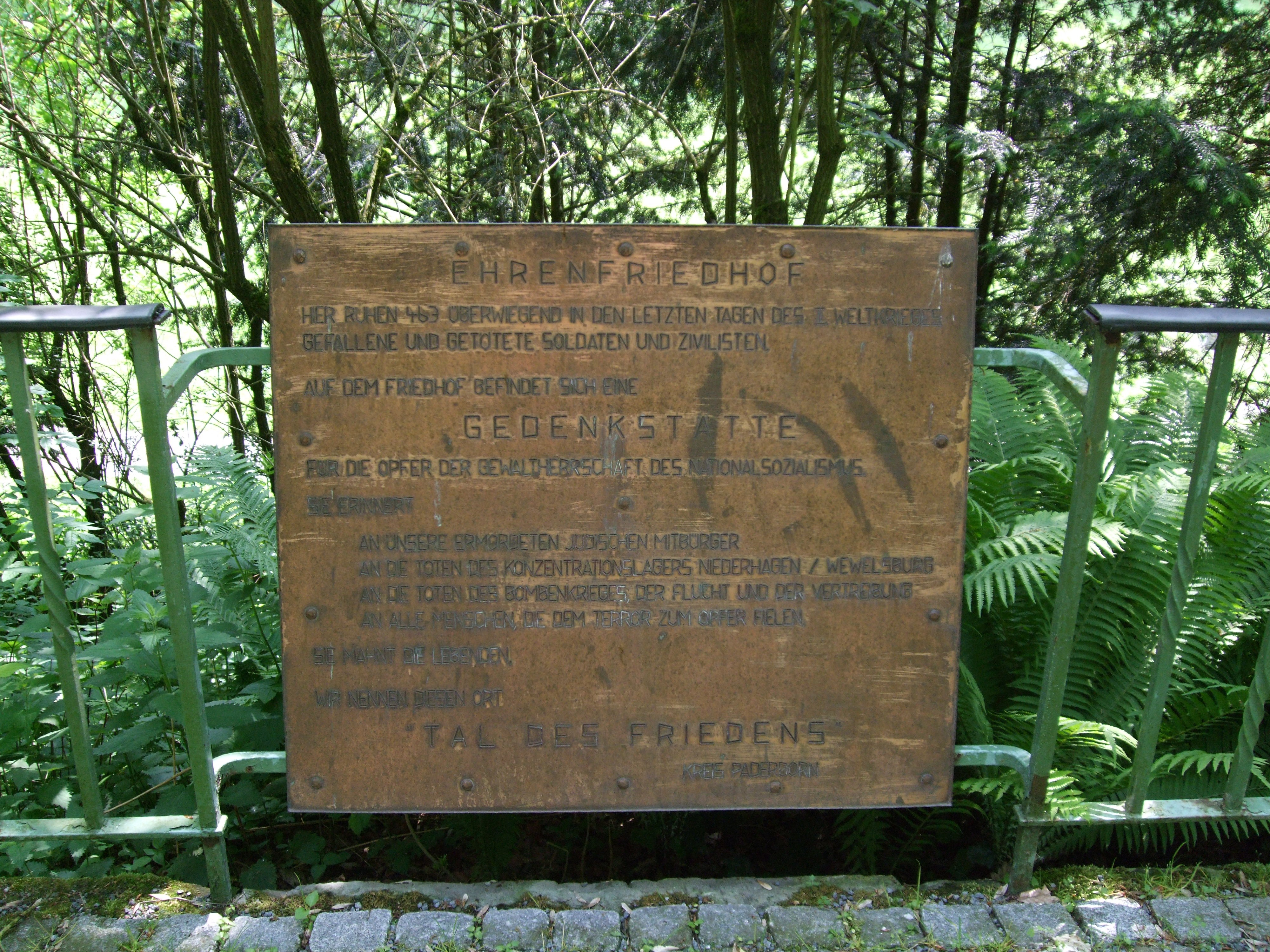 Soldatenfriedhof Böddeken, near Wewelsburg, Büren, Germany. Cemetry for soldiers fallen in the last days of Second World War. Also a memorial for victims of National socialism, in particular in concentration camp Niederhagen etc. (Josef Rikus, 1978)